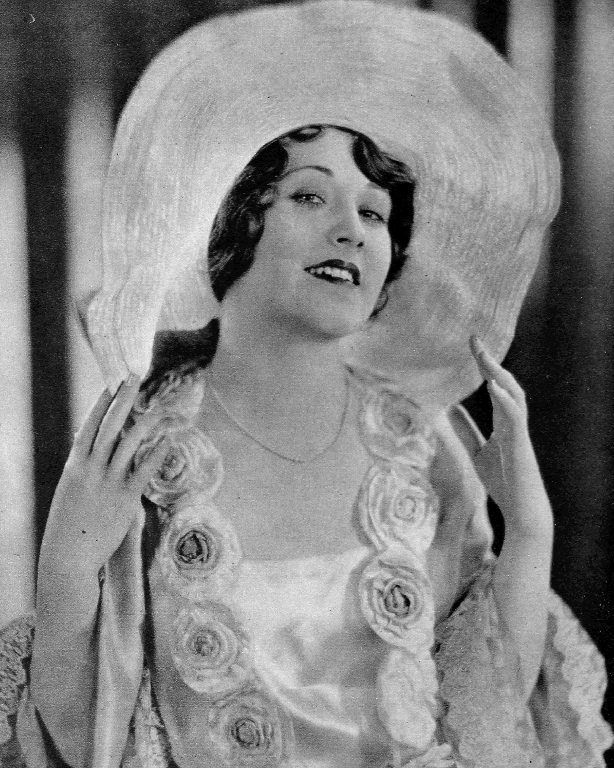 Photo of actress Ann Christy.